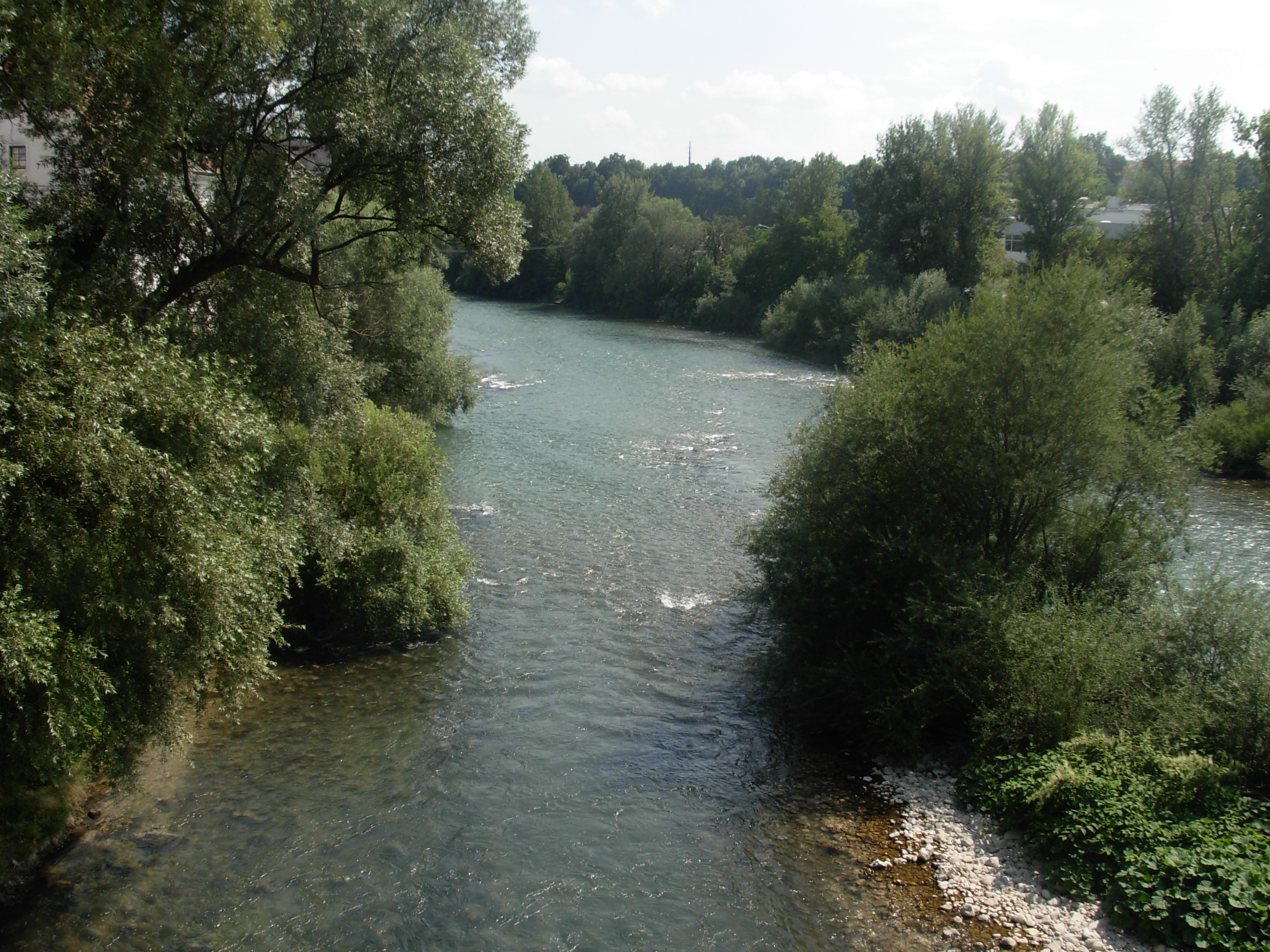 River Sava at Kranj.